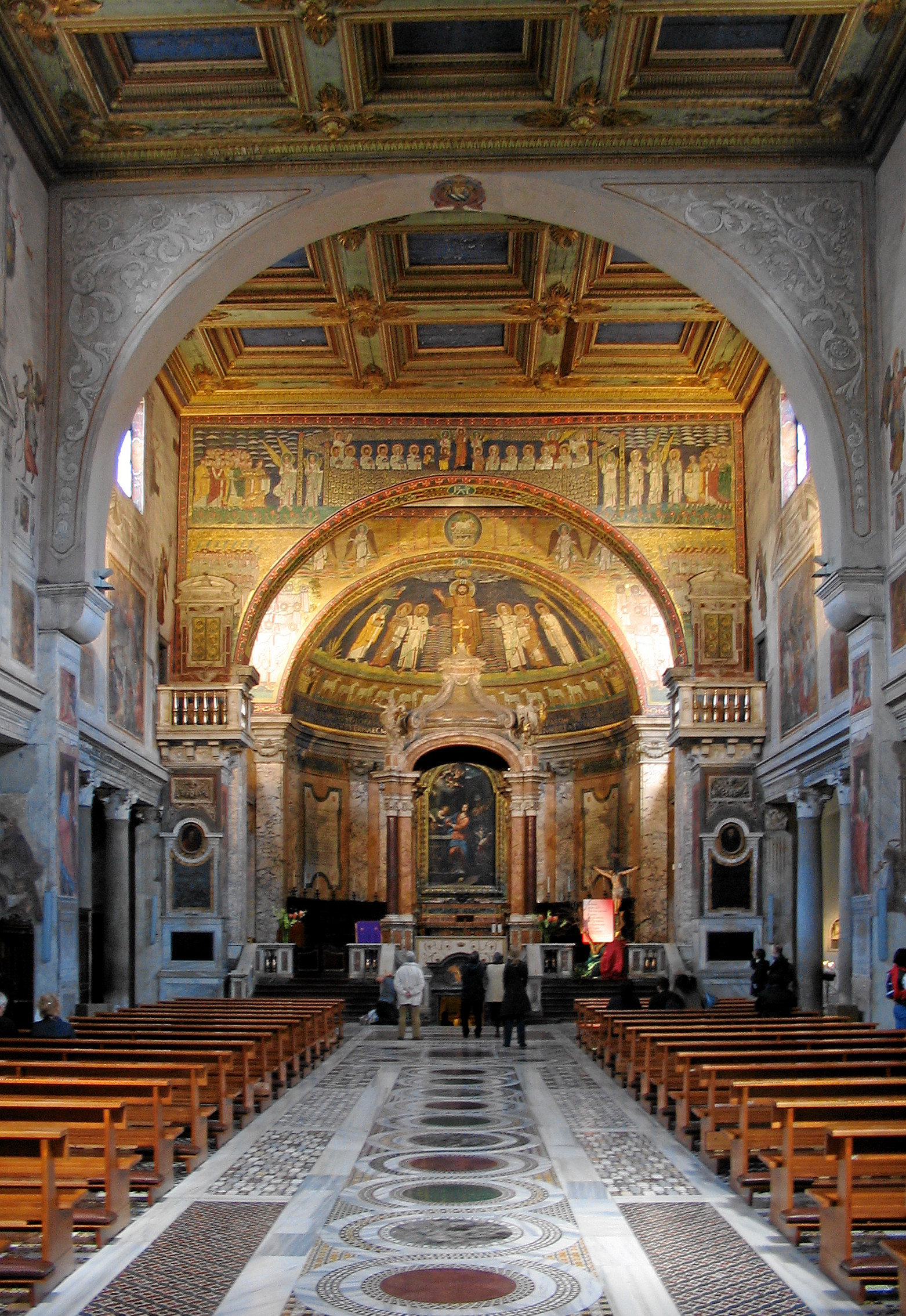 Interior of the Basilica di Sante Prassede, Rome, Italy